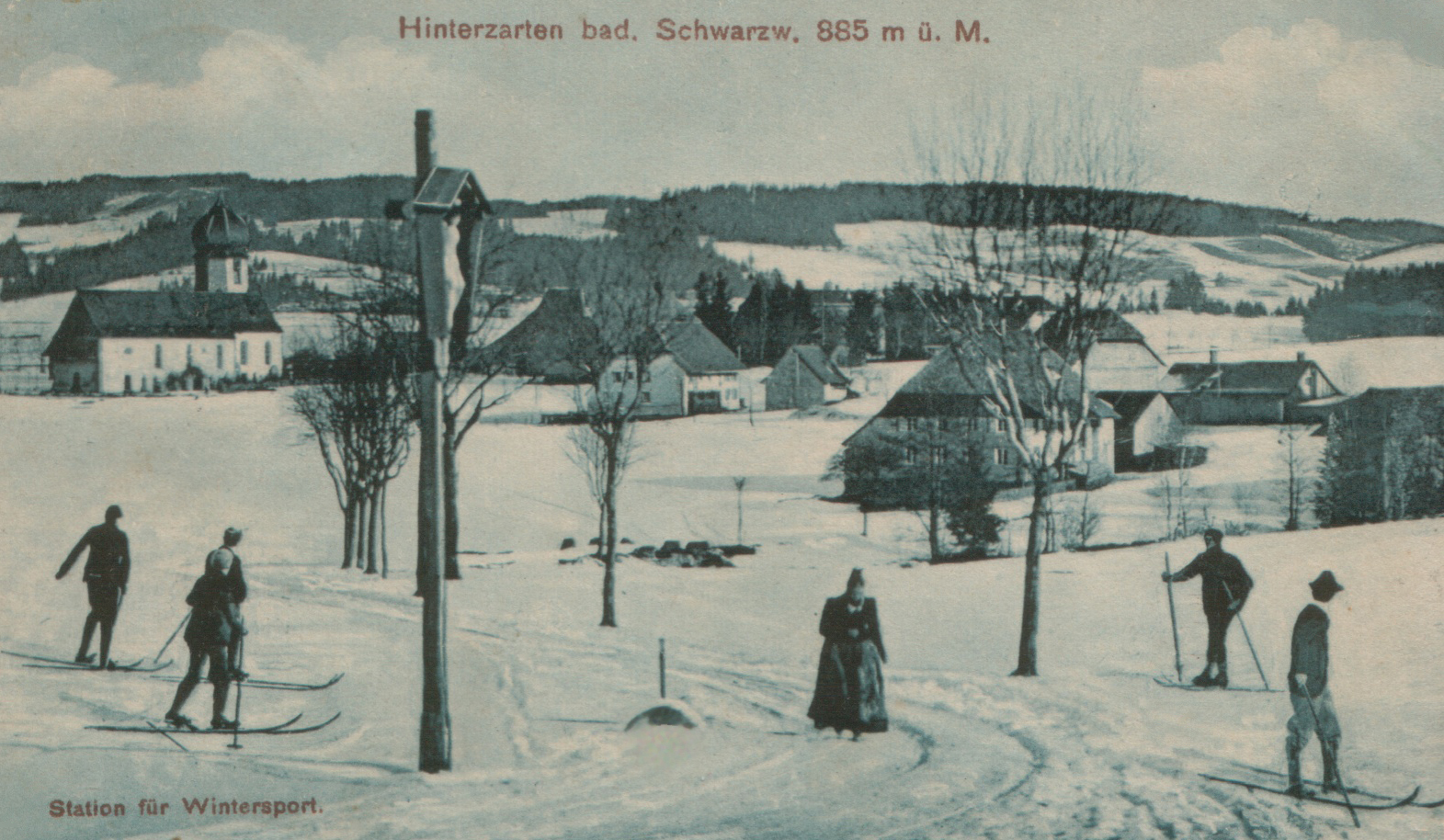 Cross-country skiing in Hinterzarten (Black Forest) around 1910